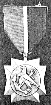 Black and white photo of the Merchant Marine Mariner's Medal